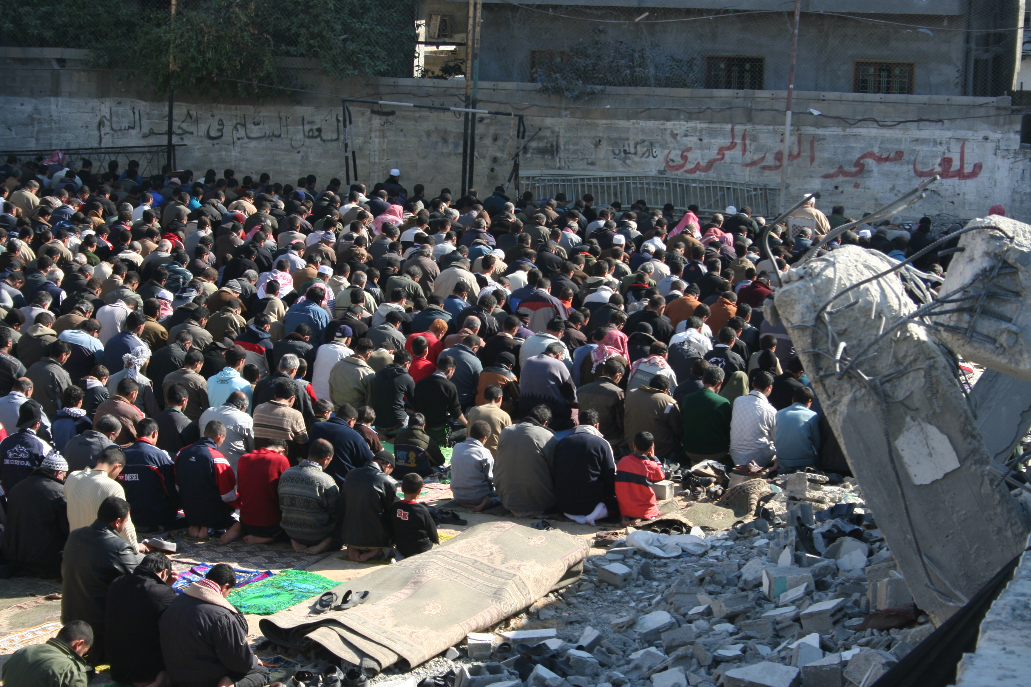 Muslim worshippers praying on the rubble of one of the many mosques destroyed by Israel during the war.